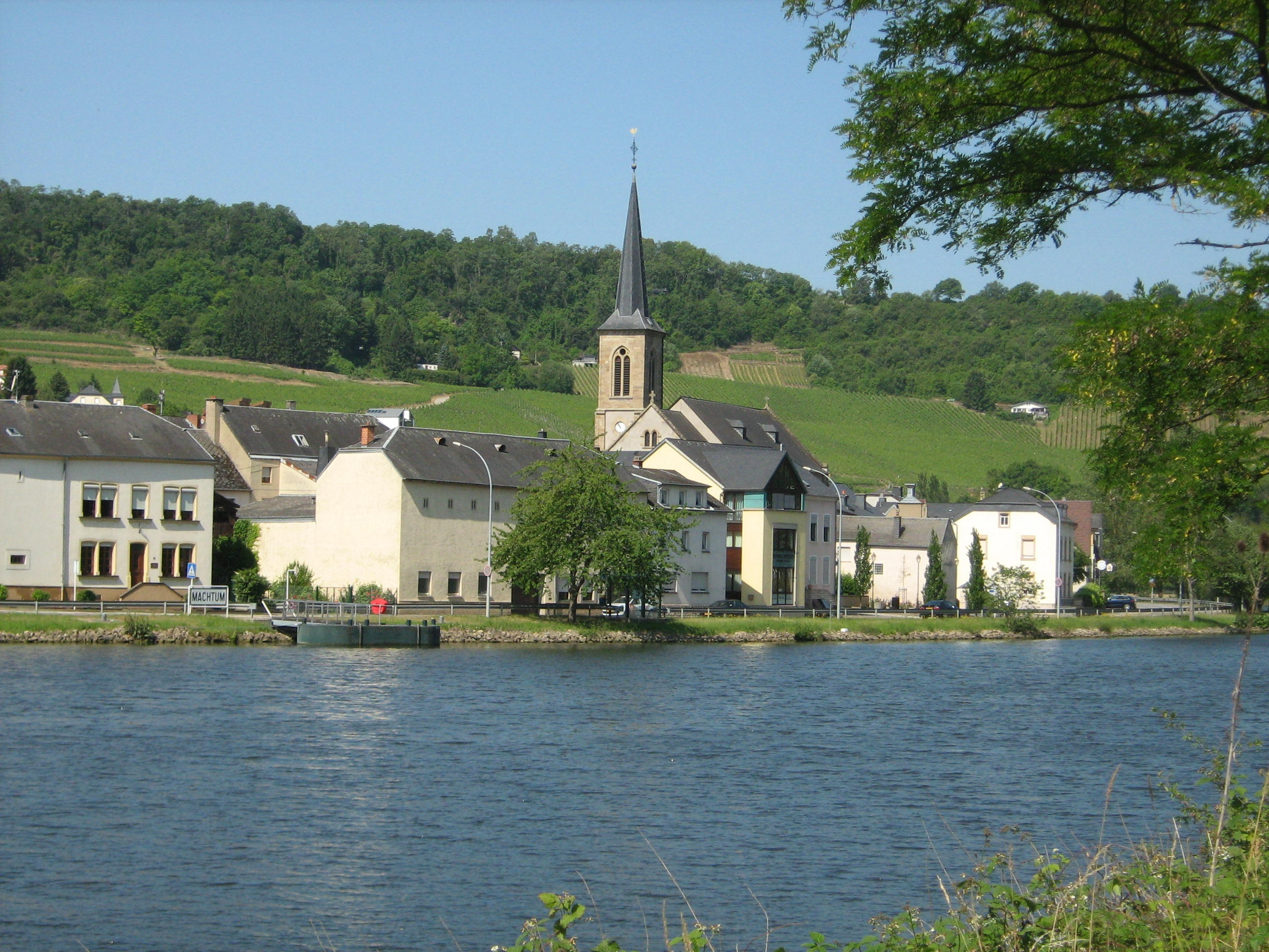 Machtum, Luxembourg, seen from the German side of the River Moselle.